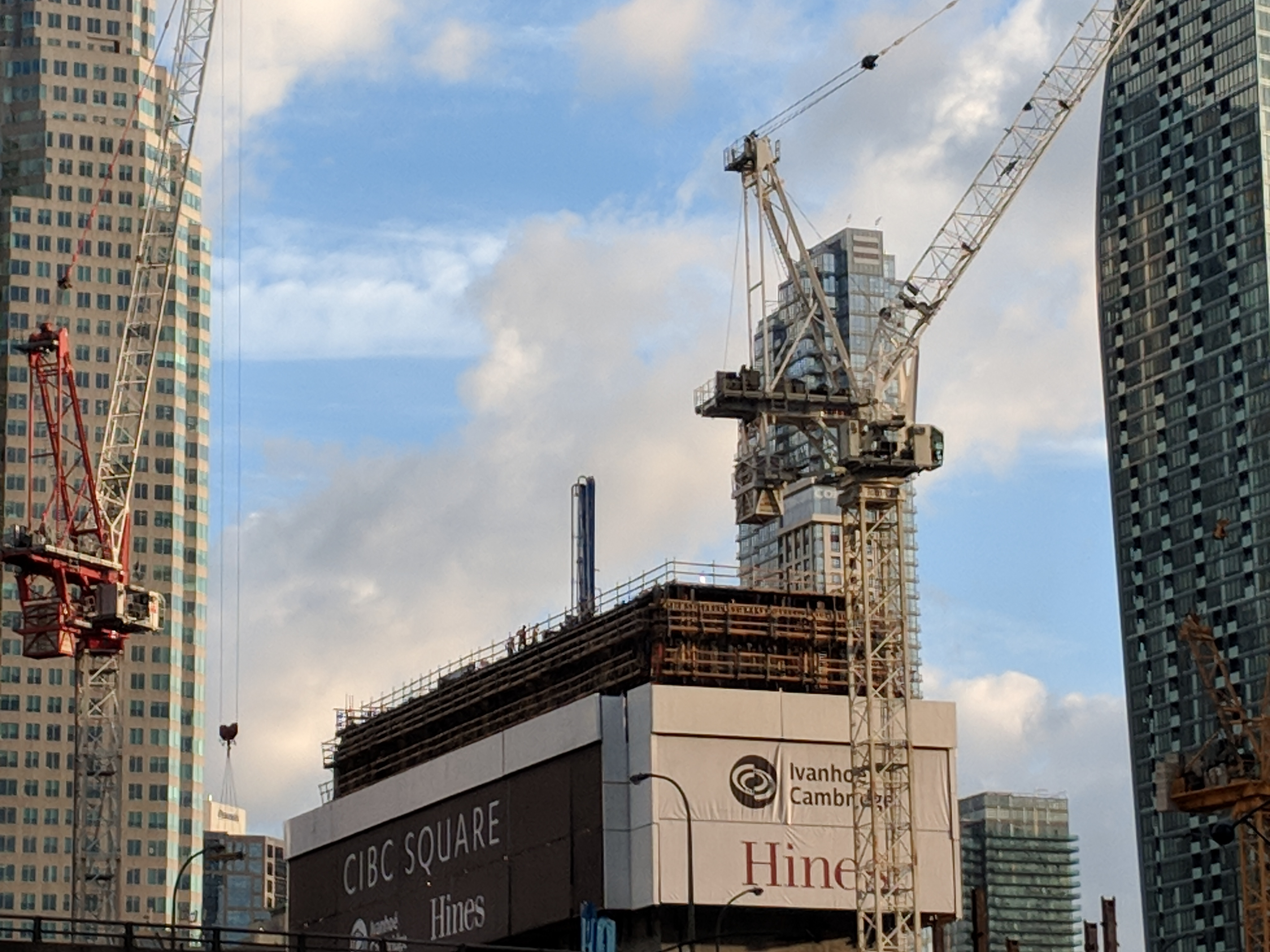 CIBC Square from Harbour Street